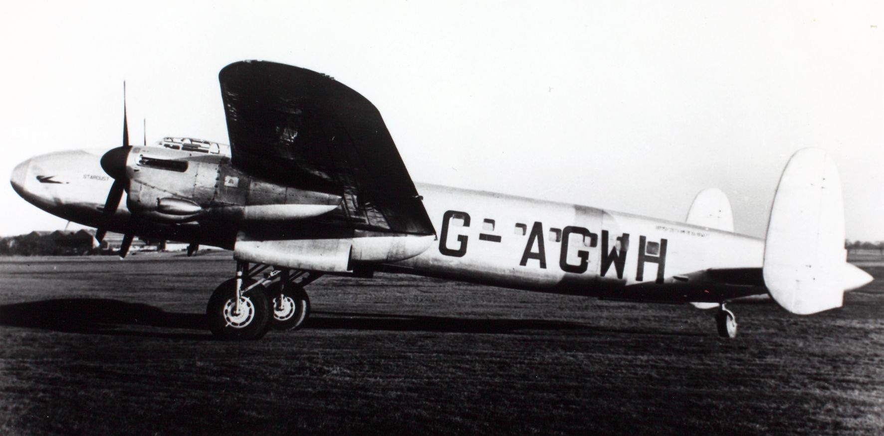 Image from the Charles Daniels Photo Collection album "British Aircraft." SOURCE INSTITUTION: San Diego Air and Space Museum Archive